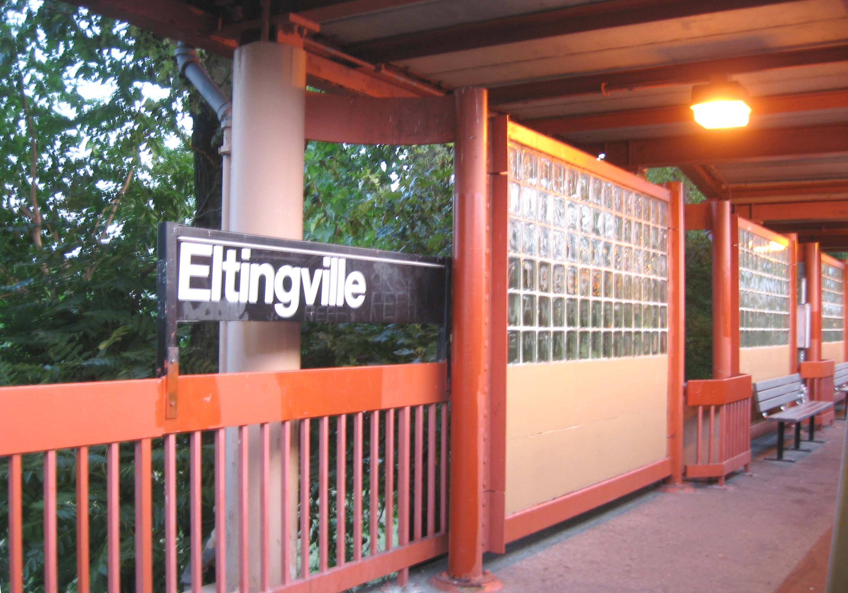 Looking south at northbound platform of Eltingville (Staten Island Railway station) at dusk of a sunny day. 'See also File:Eltingville si nb st jeh.JPG'.